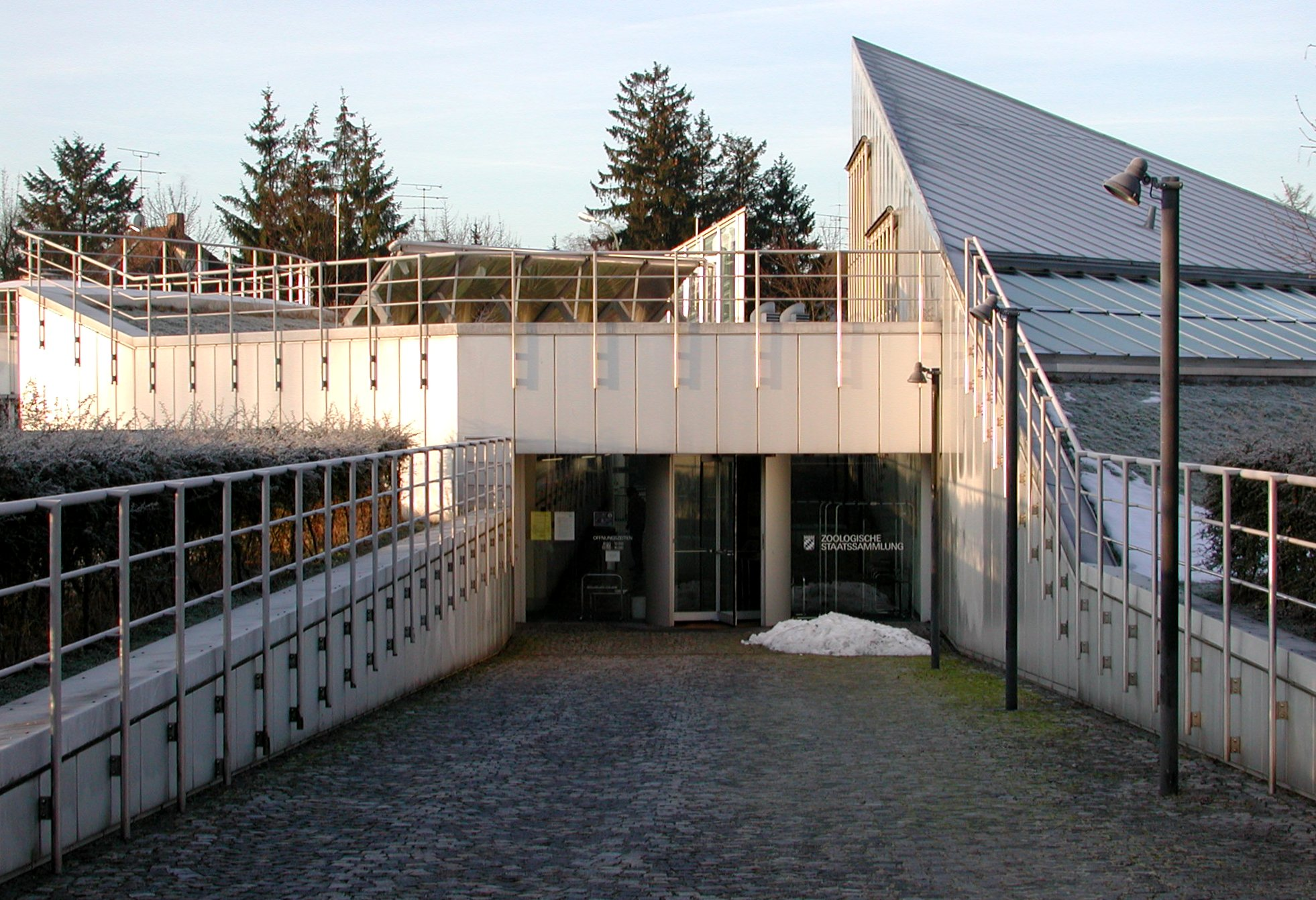 Main-entrance of the Zoologische Staatssammlung Muenchen, in Munich, Germany, taken in the morning of January (2007)